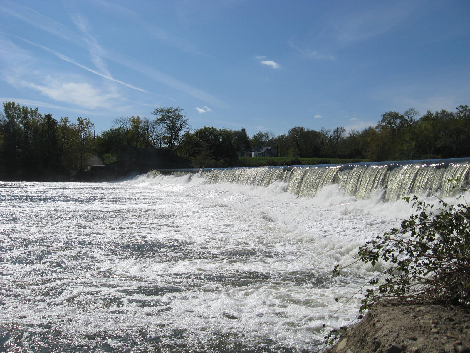 The White River in Indianapolis